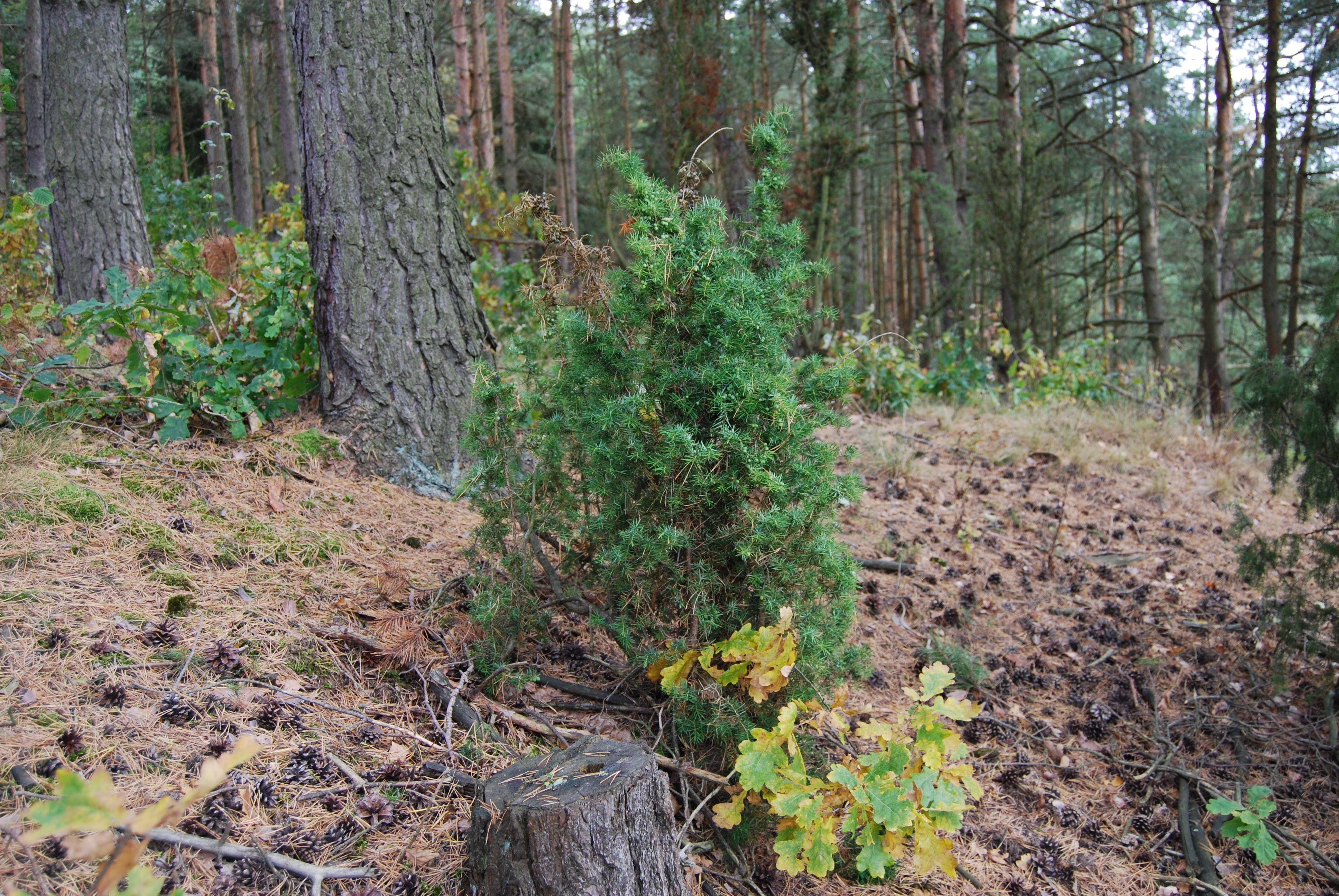 Natural monumet Bouřidla in northern direction from Čmelíny village in Plzeň-jih District. Czech Republic.